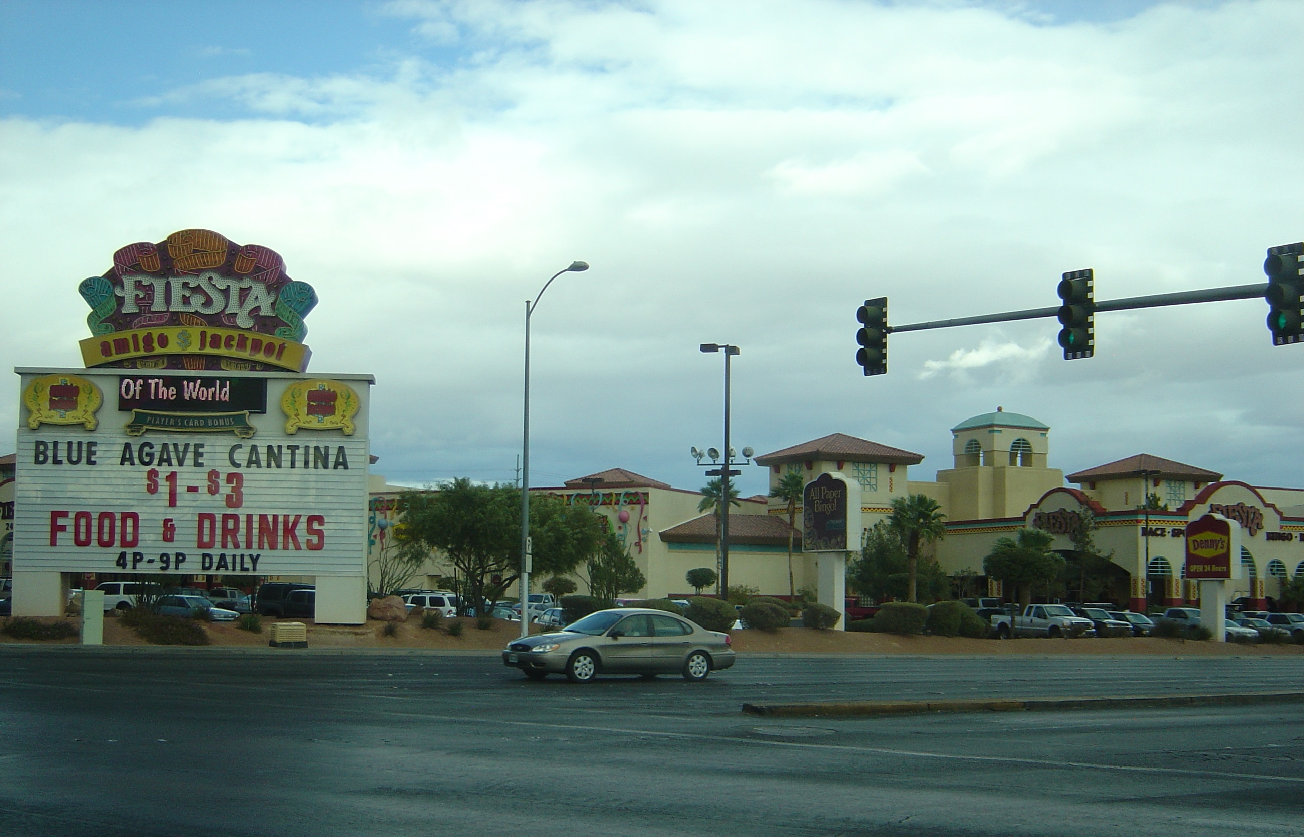 Fiesta Rancho hotel-casino, seen from the intersection of North Rancho Drive and West Lake Mead Boulevard.